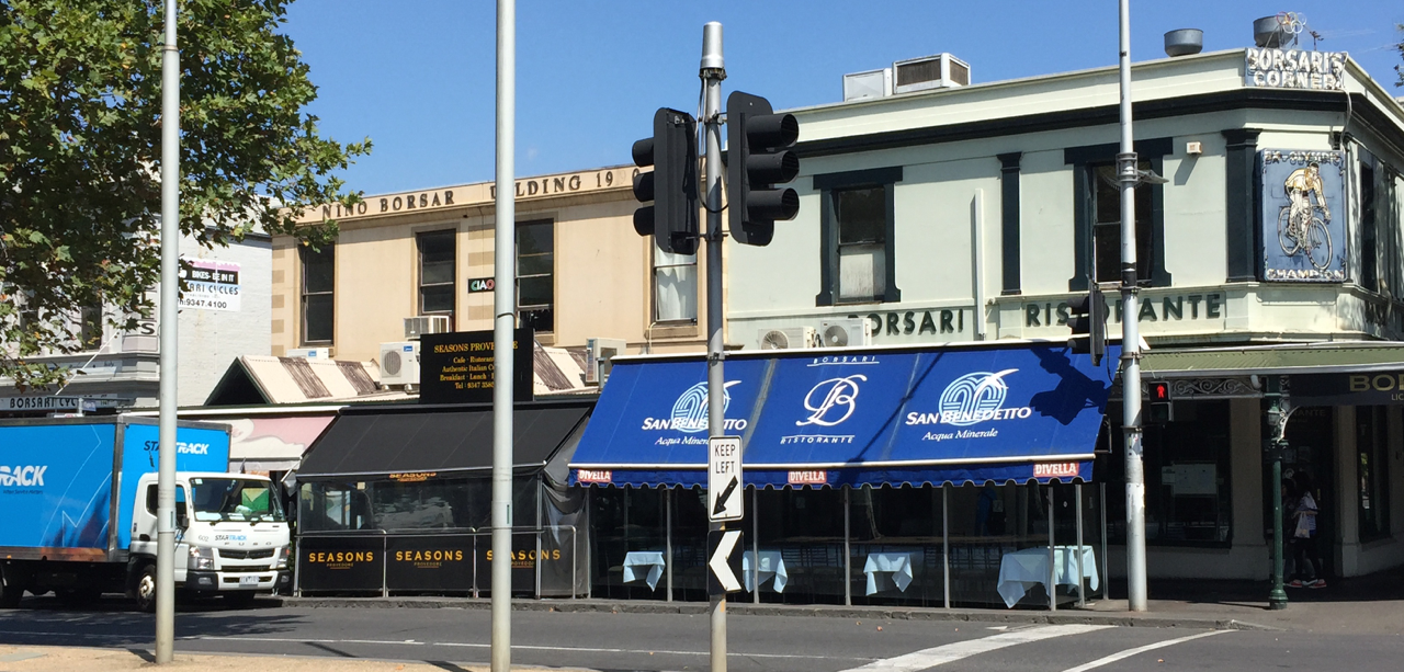 A view of "Borsari's Corner" from the other side of Lygon Street in Carlton, Victoria, Australia.